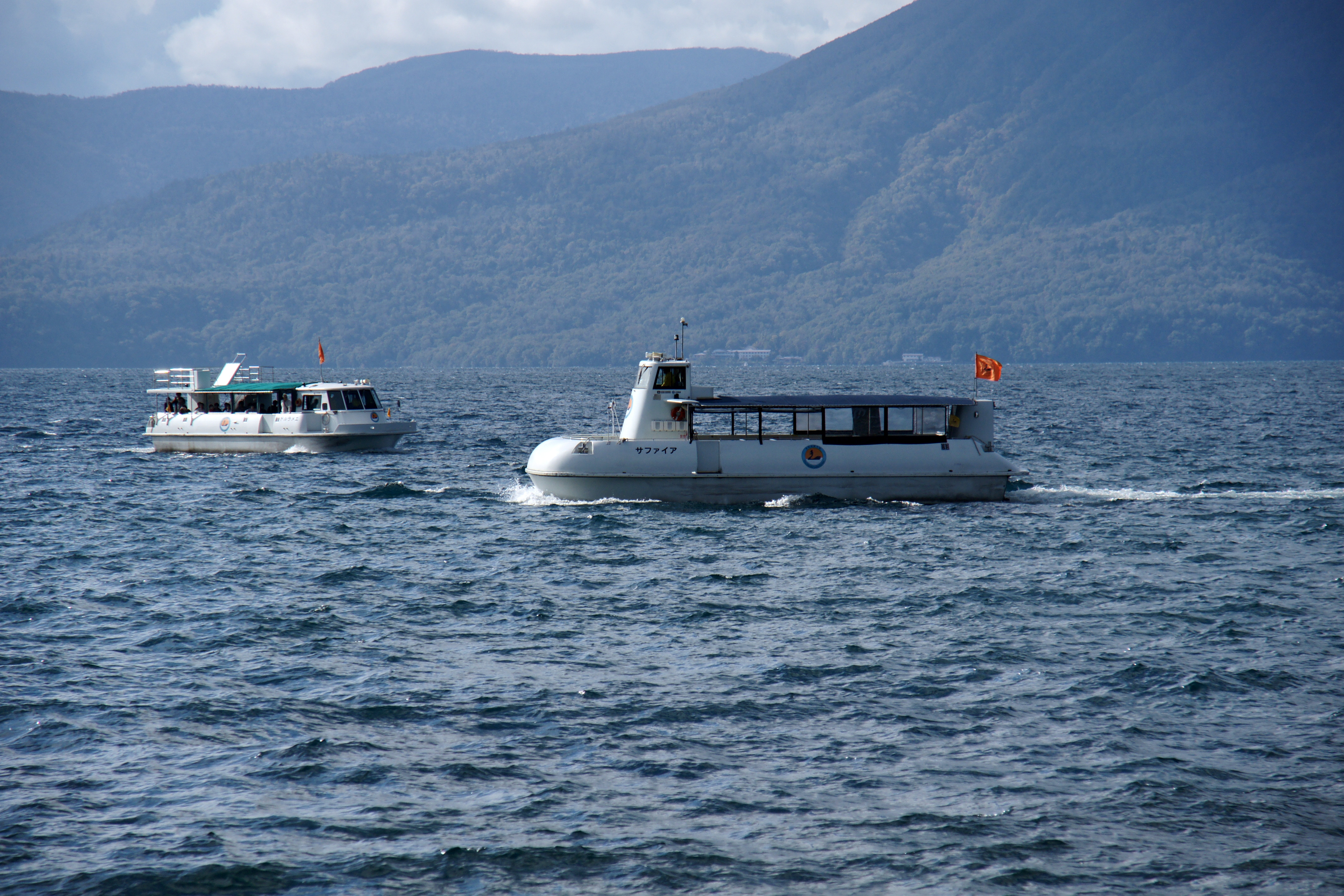 Lake Shikotsu, Chitose, Hokkaido prefecture, Japan